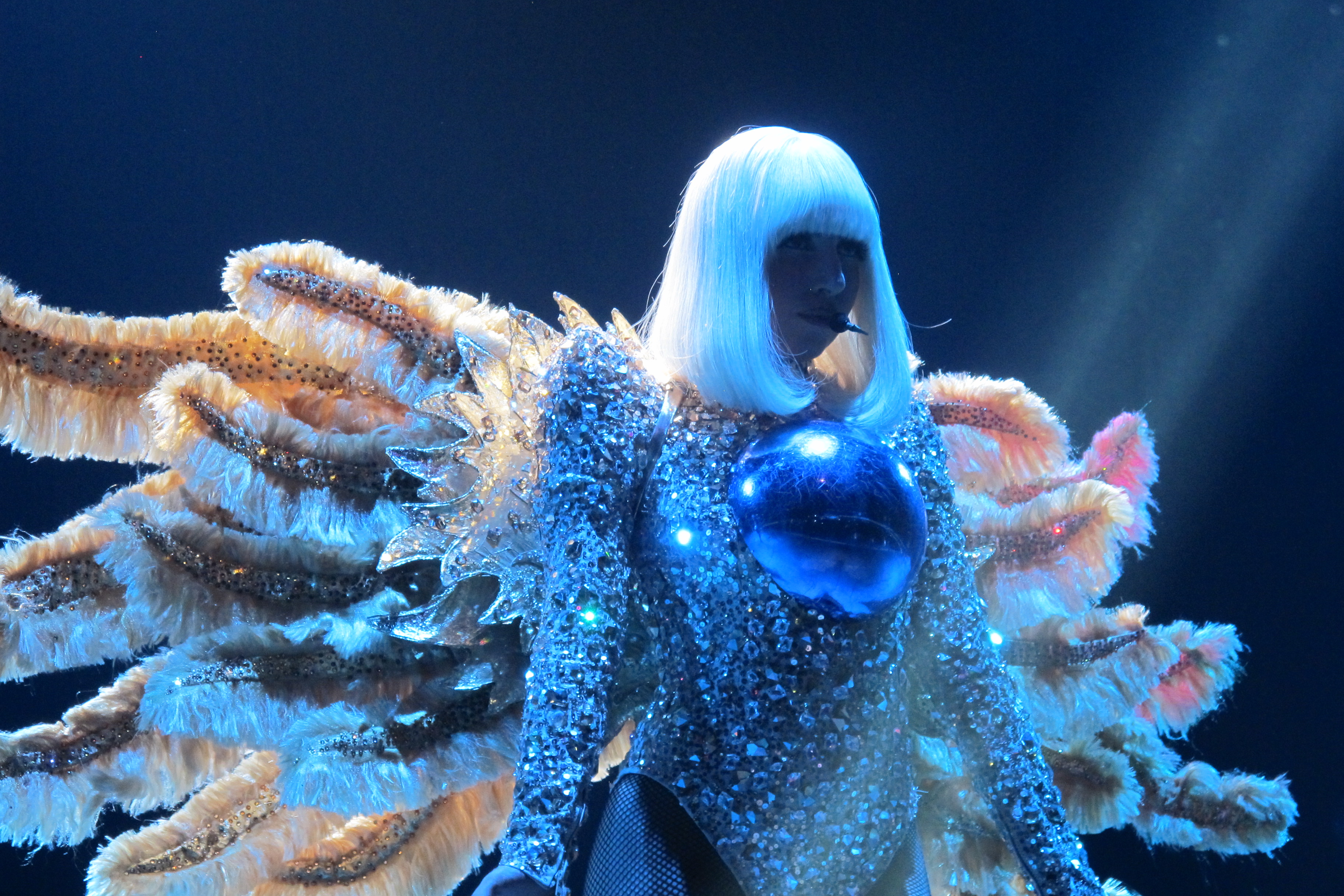 IMG_8139 Lady Gaga performing at ArtRave: The Artpop Ball of San Diego